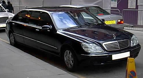 Mercedes-Benz S600 Pullman and Bentley Arnage Photographed in Amsterdam, Netherlands.